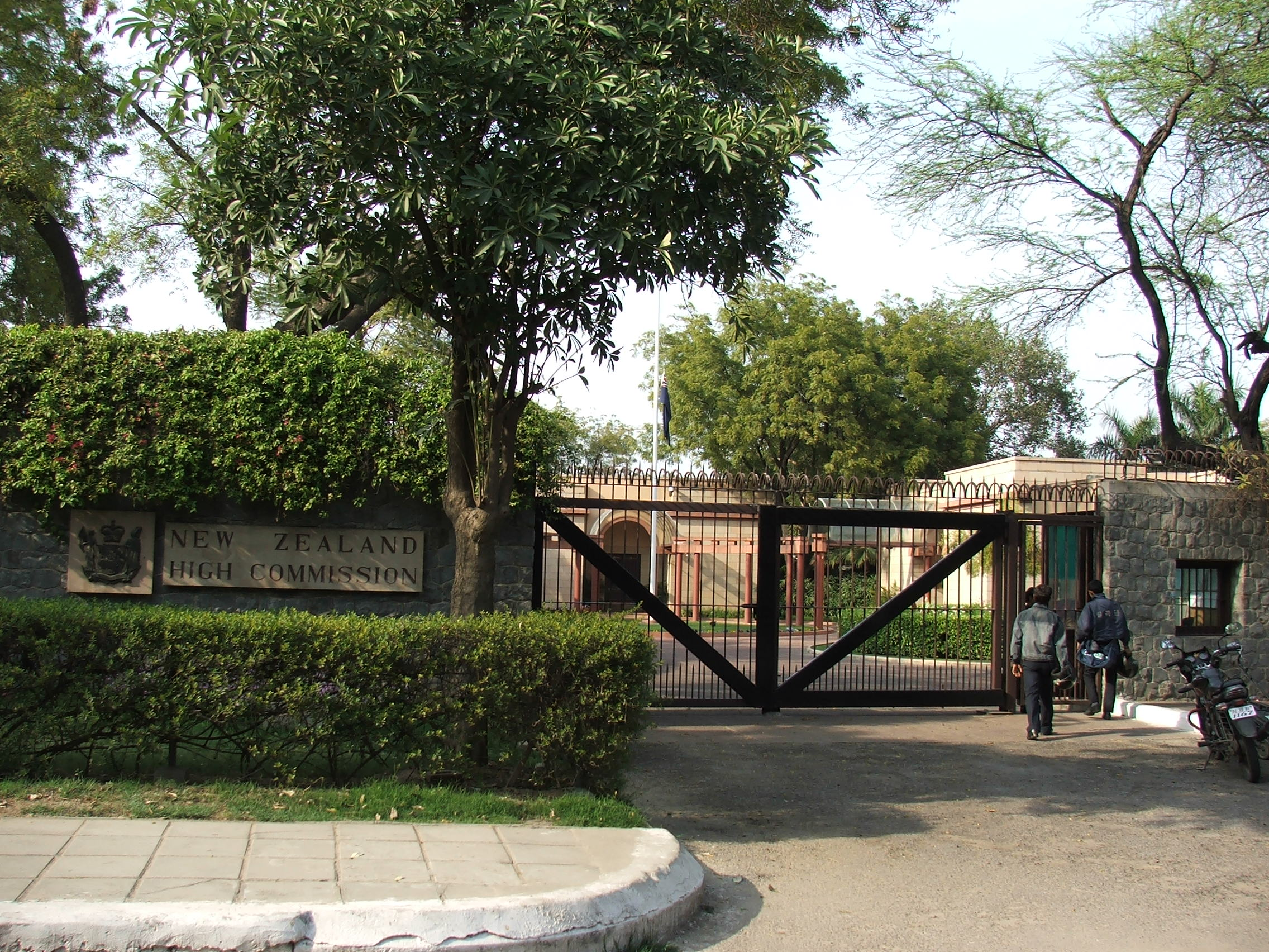 High Commission of New Zealand in New Delhi, India.